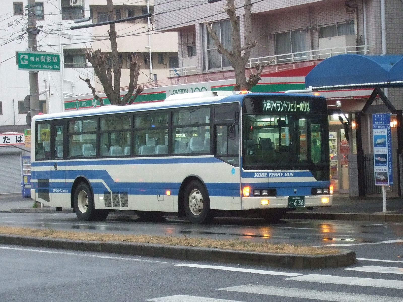 The shuttle bus operated from Hanshin Mikage Station and JR Sumiyoshi Station to Sun Flower Ferry Terminal. 阪神御影駅 - 六甲アイランドフェリーターミナル間で運行されるフェリーさんふらわあ接続シャトルバス